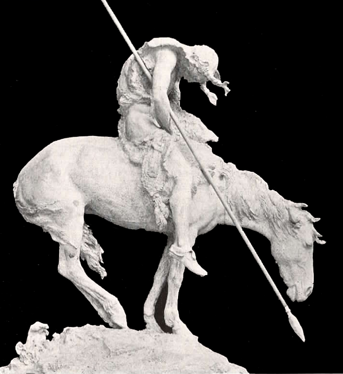 James Earle Fraser sculpture from "Art Lover's Guide to the Exposition, Sheldon Cheney, At the Sign of the Berkeley Oak, Berkeley, Ca 1913